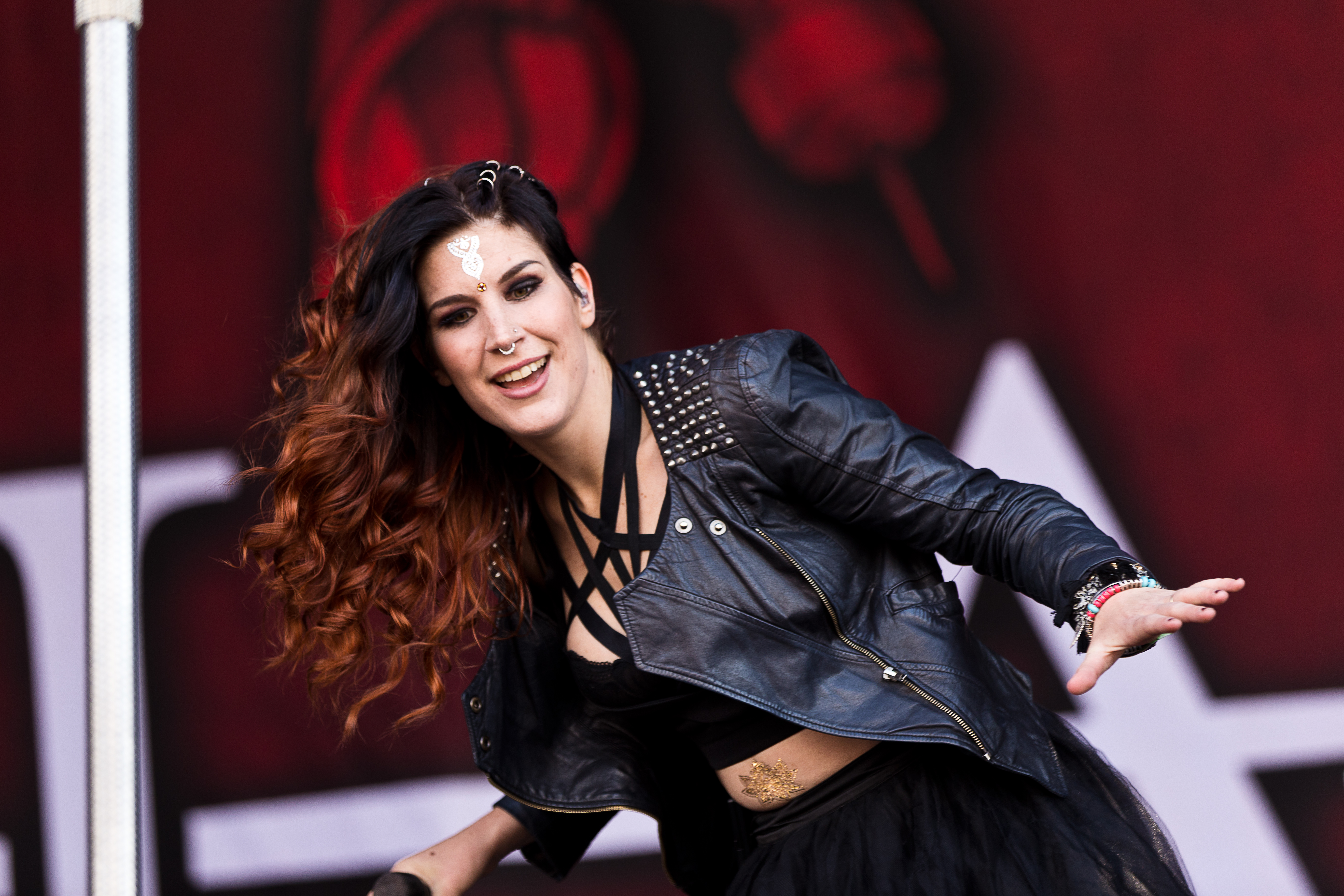 The Dutch symphonic metal band Delain at the Rockharz Open Air 2015 in Ballenstedt/Germany.